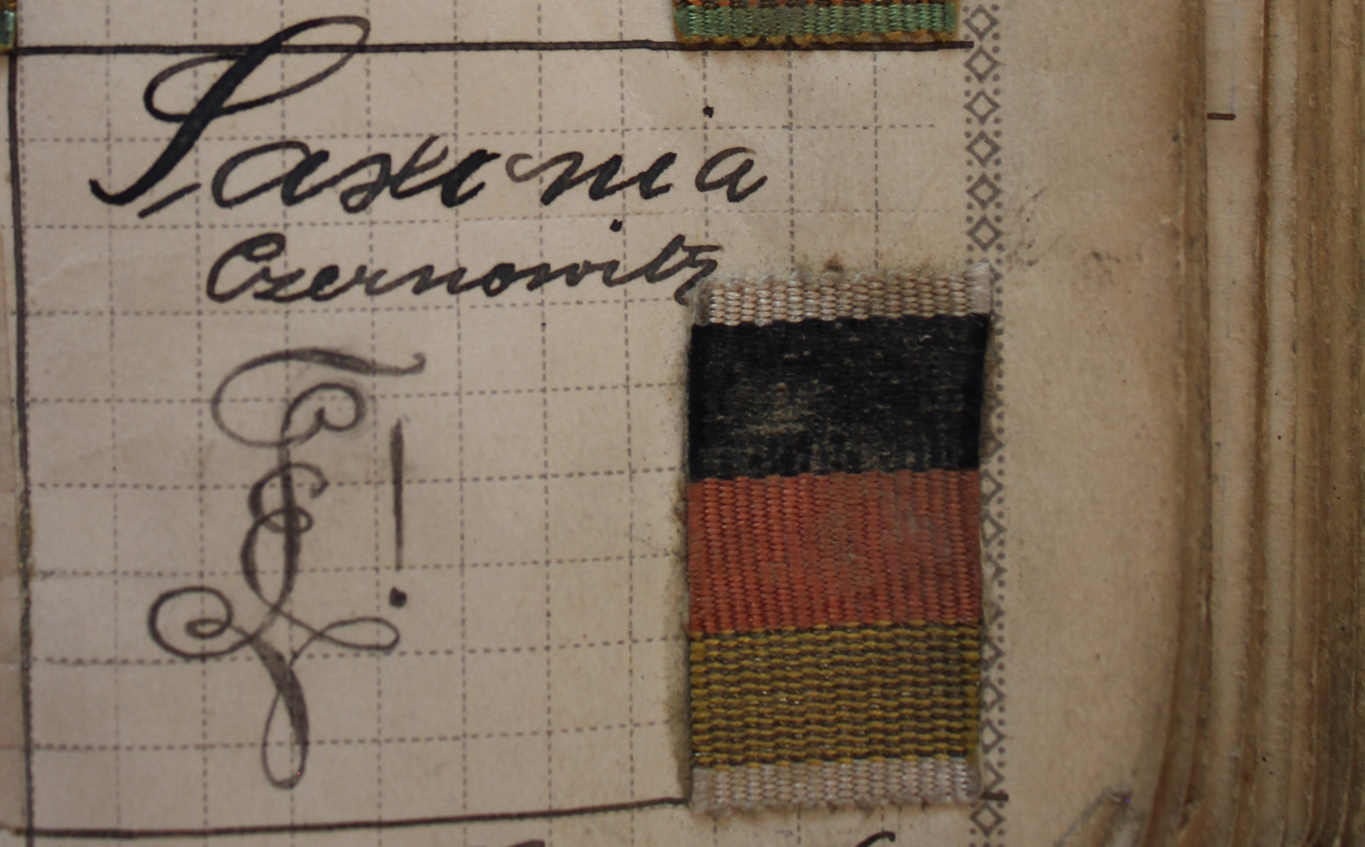 Fraternity ribbon and emblem (Zirkel) of Burschenschaft Saxonia Czernowitz